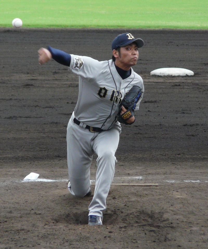 Kentaro Kuwahara, pitcher of the Orix Buffaloes, at Hanshin Naruohama Baseball Ground.